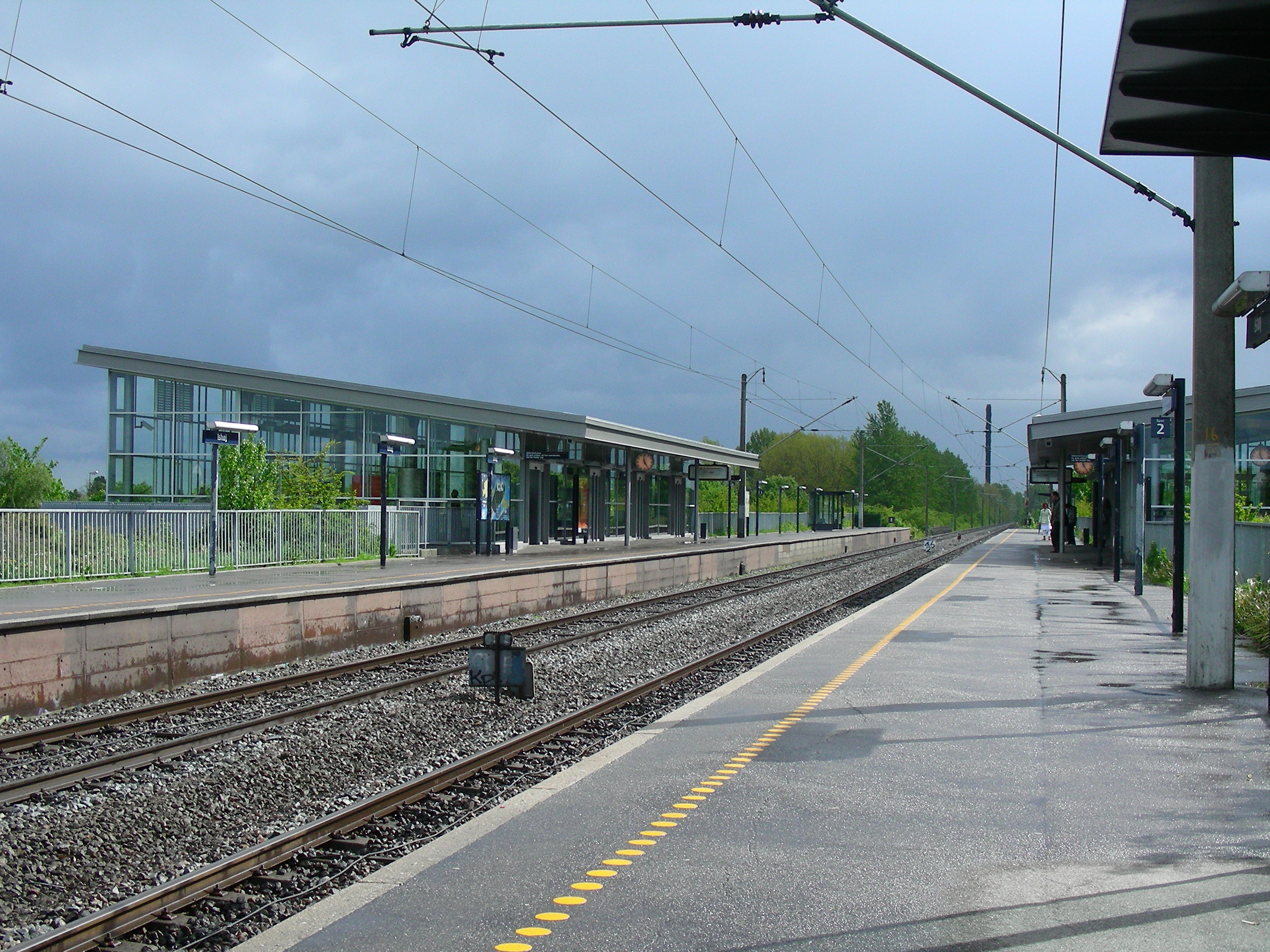 Ishøj S-Train Station, Denmark. View from platforms.